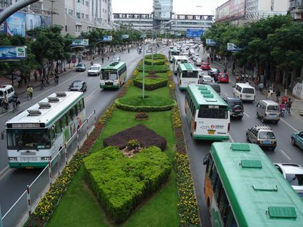 Kunming traffic